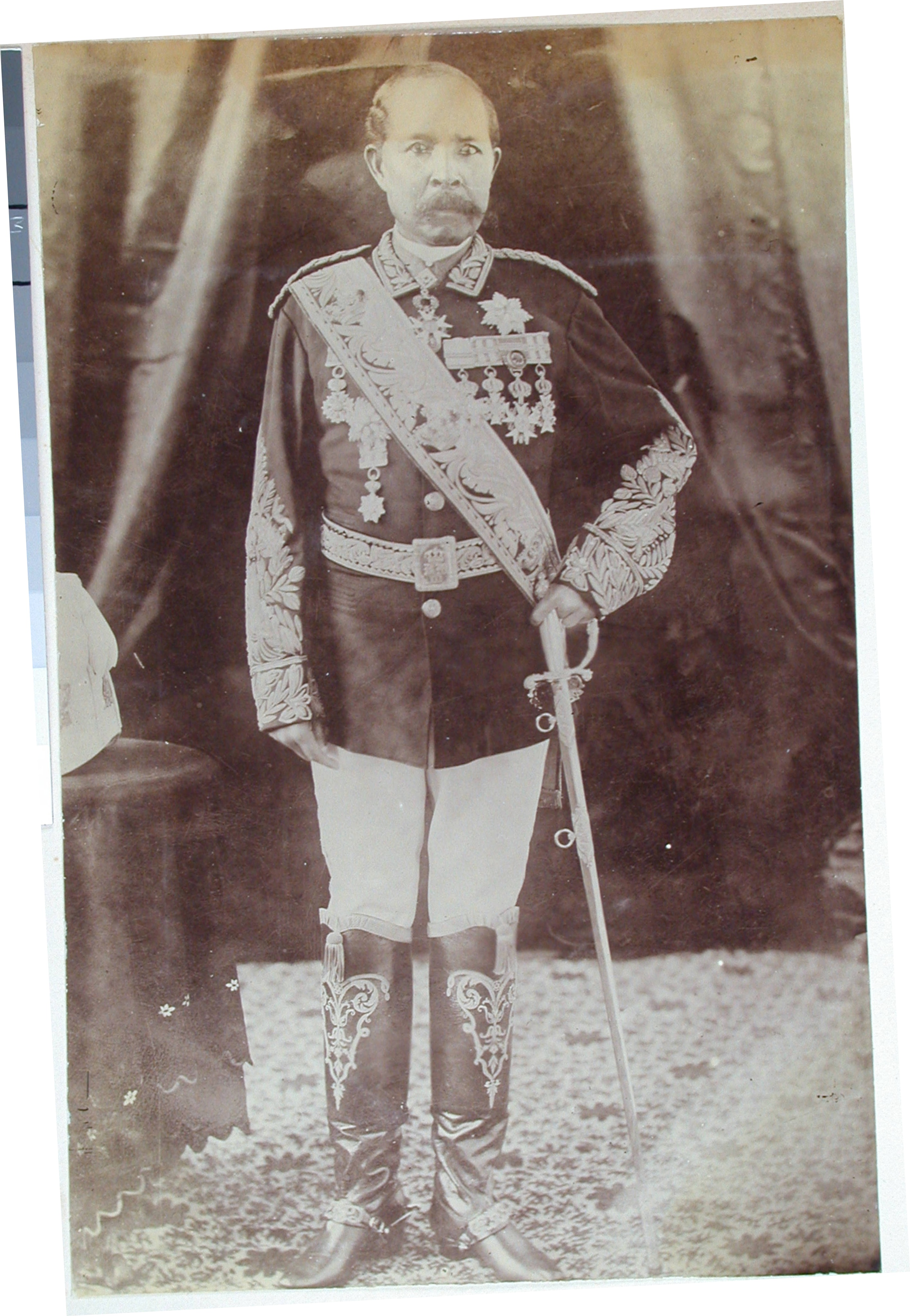 "Rainilaiarivony, Expremierminister" ("Rainilaiarivony, Prime Minister of Madagascar"). Standing, wearing his uniform with long shiny boots and embroided garments. He has many medals on his uniform jacket. Rainilaiarivony was the last independent Prime Minister. See also IMP-NMS-A01-033.